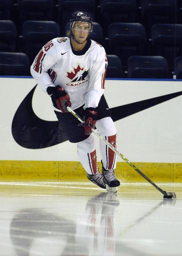 'Simon Gagne in Canadian national team dress